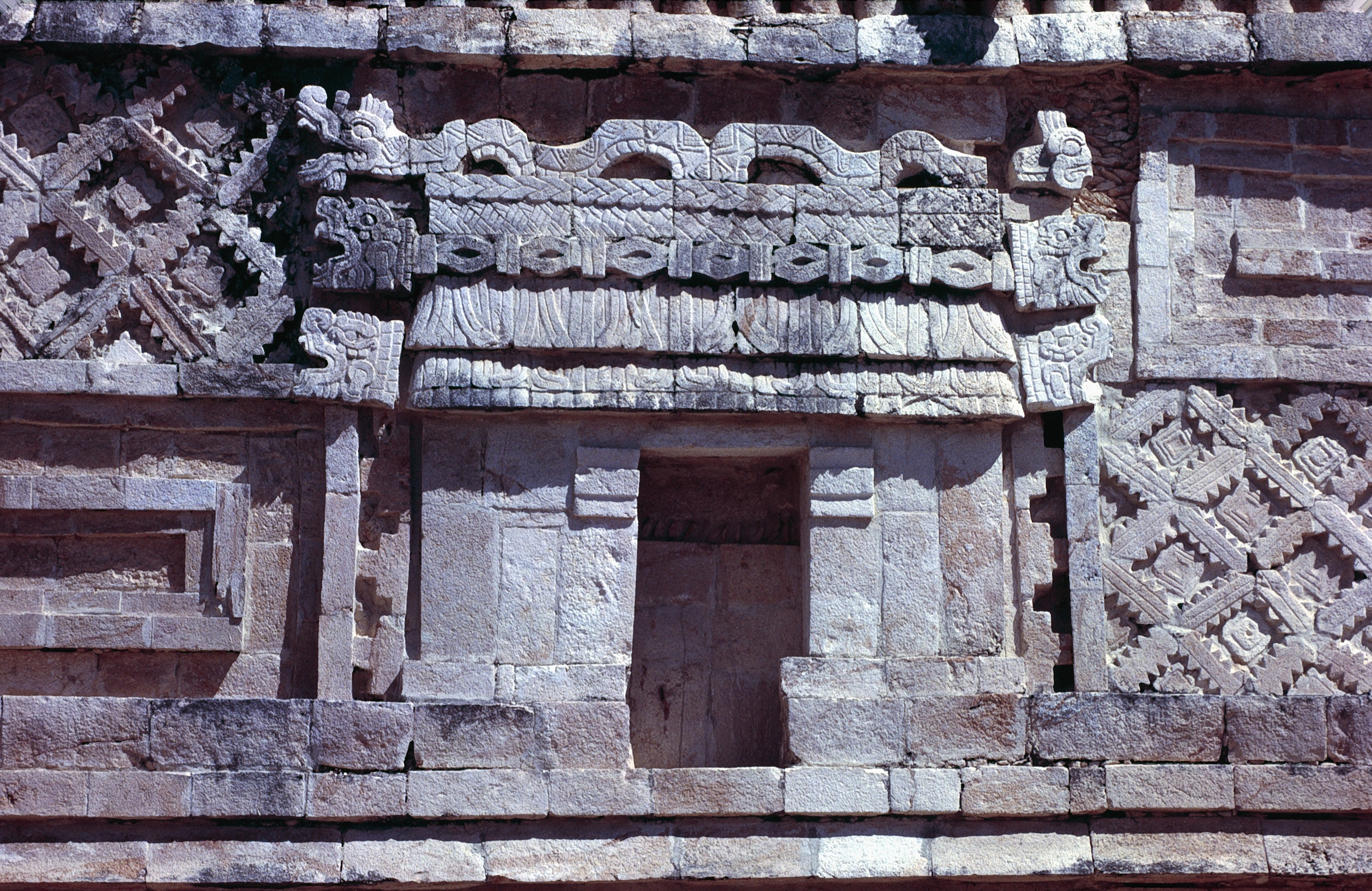 Uxmal, Yucatan, Mexico: Monjas, North Building. frieze: house with two double-headed serpents